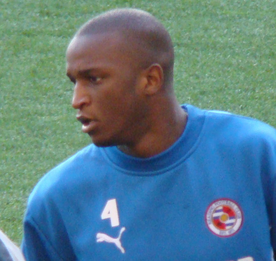 Kalifa Cissé warming up against Aston Villa